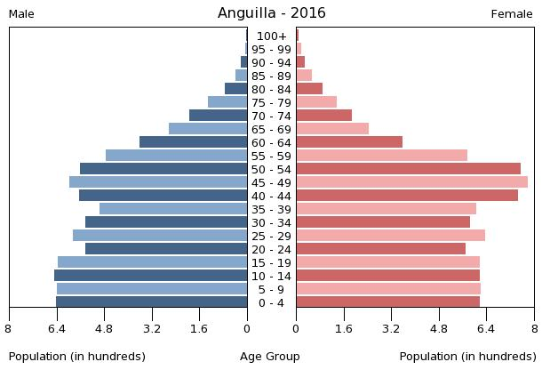 The population pyramid of Anguilla illustrates the age and sex structure of population and may provide insights about political and social stability, as well as economic development. The population is distributed along the horizontal axis, with males shown on the left and females on the right. The male and female populations are broken down into 5-year age groups represented as horizontal bars along the vertical axis, with the youngest age groups at the bottom and the oldest at the top. The shape of the population pyramid gradually evolves over time based on fertility, mortality, and international migration trends.